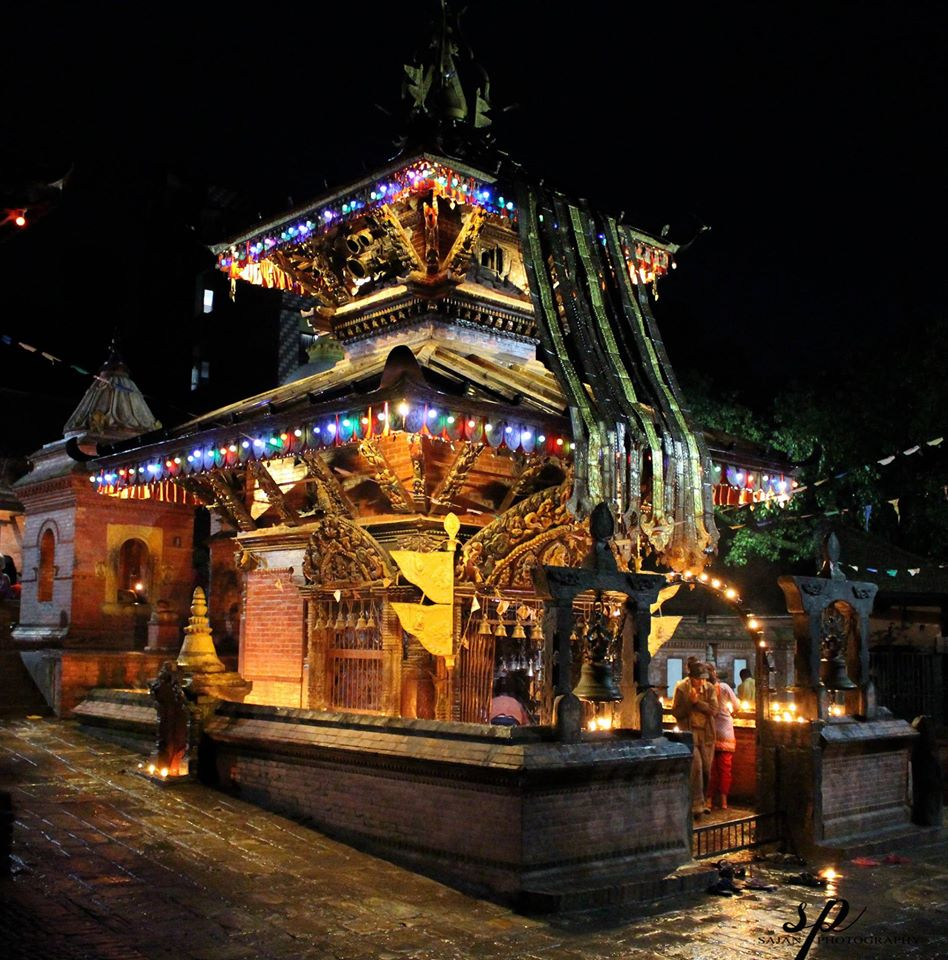 Siddhikali Temple also known as Inayeko dyo and Chamunda. Goddess Chamunda is one of the goddess of Astamatrika.